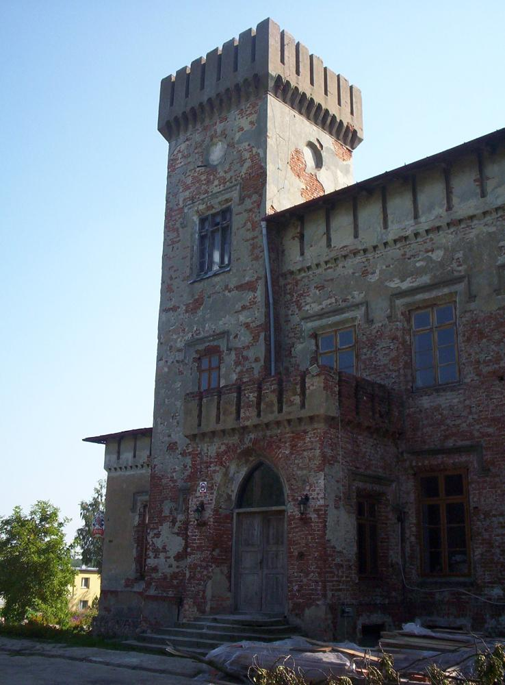 Palace in Biała Rawska, Poland.